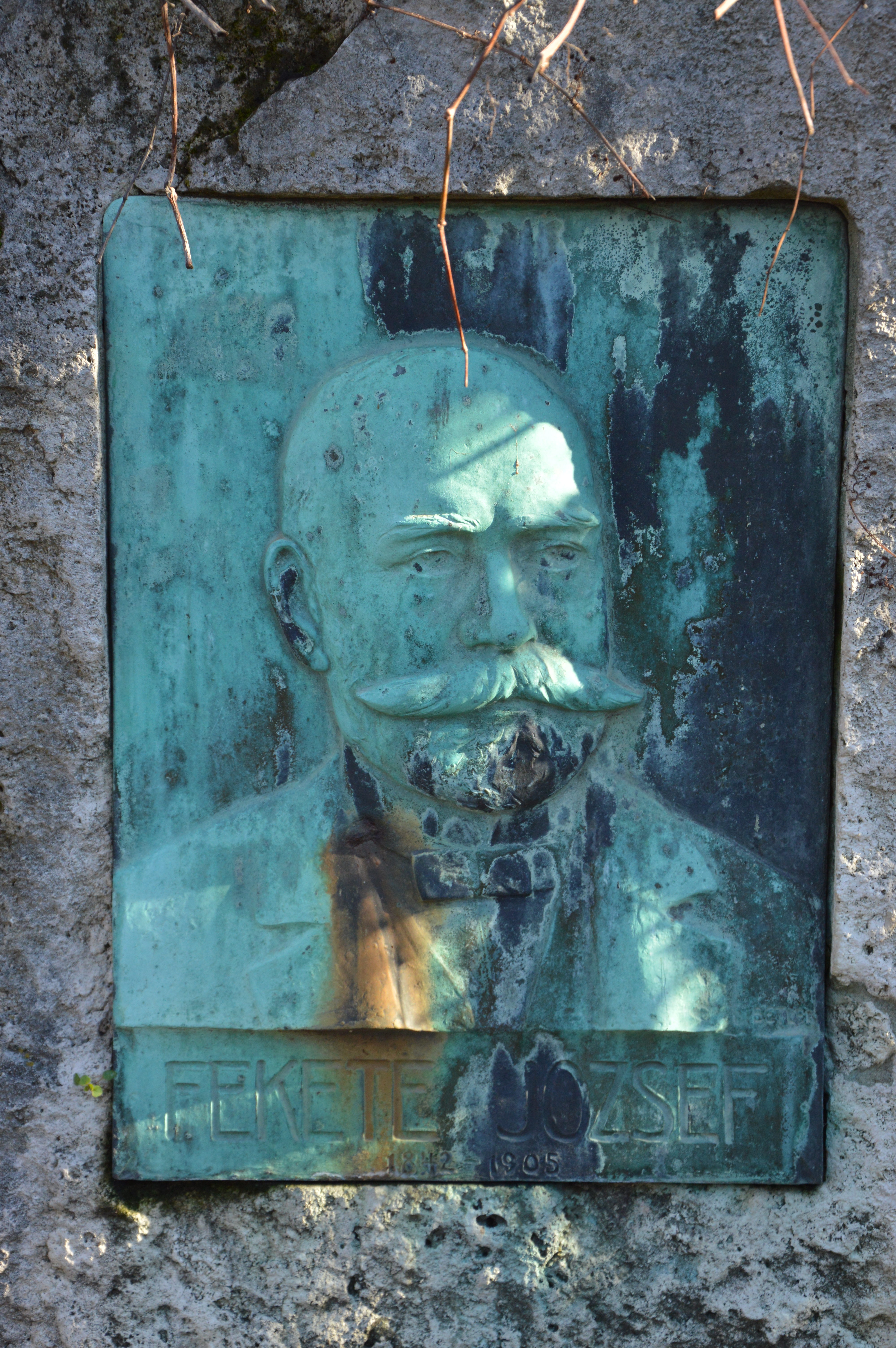 A 1910 relief of József Fekete (1842-1905) by Gyula Betlen in Füvészkert (Botanical Garden Budapest)